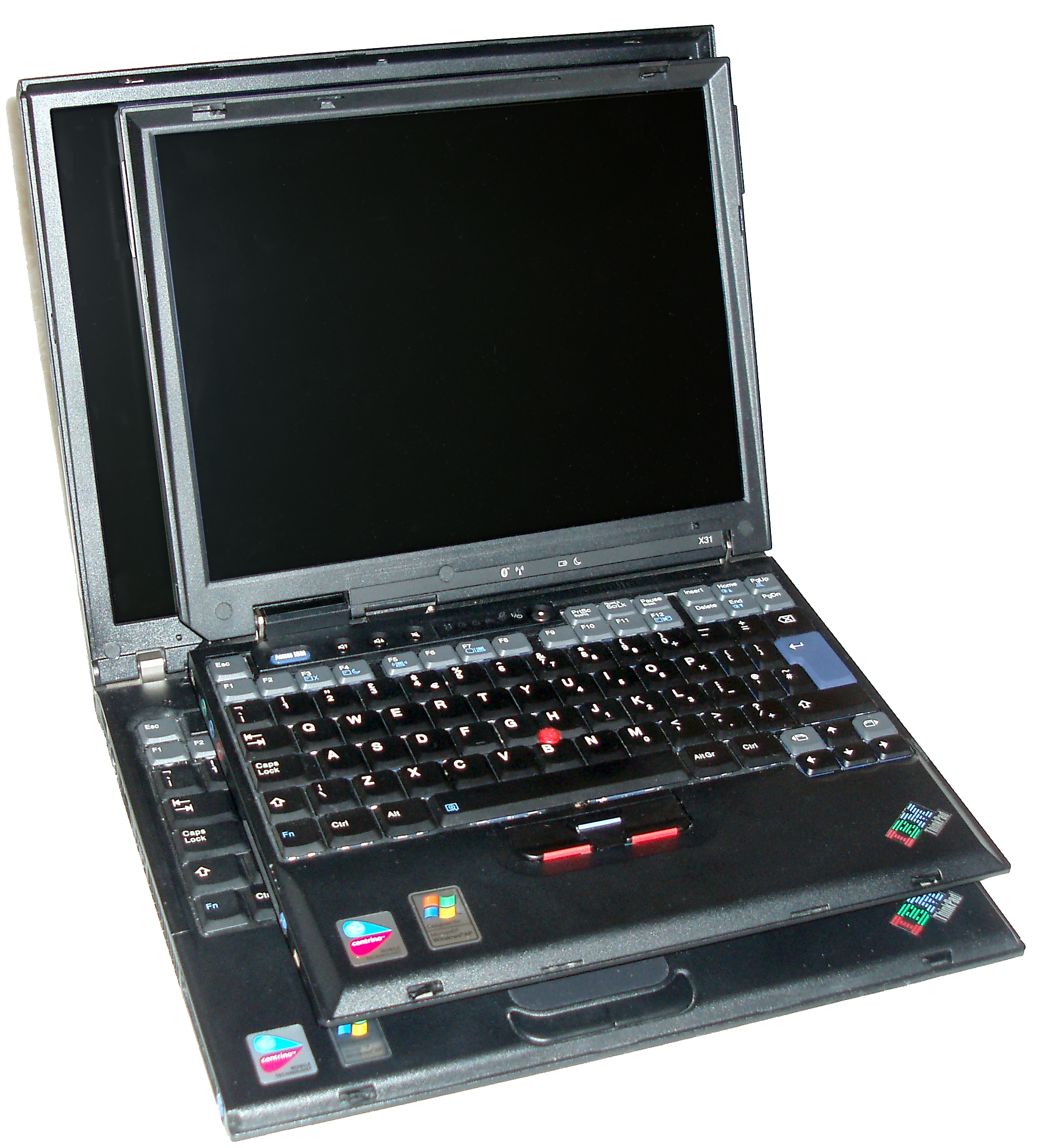 A Comparison of an IBM X31 laptop with 12" screen against an IBM T43 laptop with a 14" screen